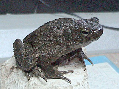 Bufo asper - Photographer: Dawson